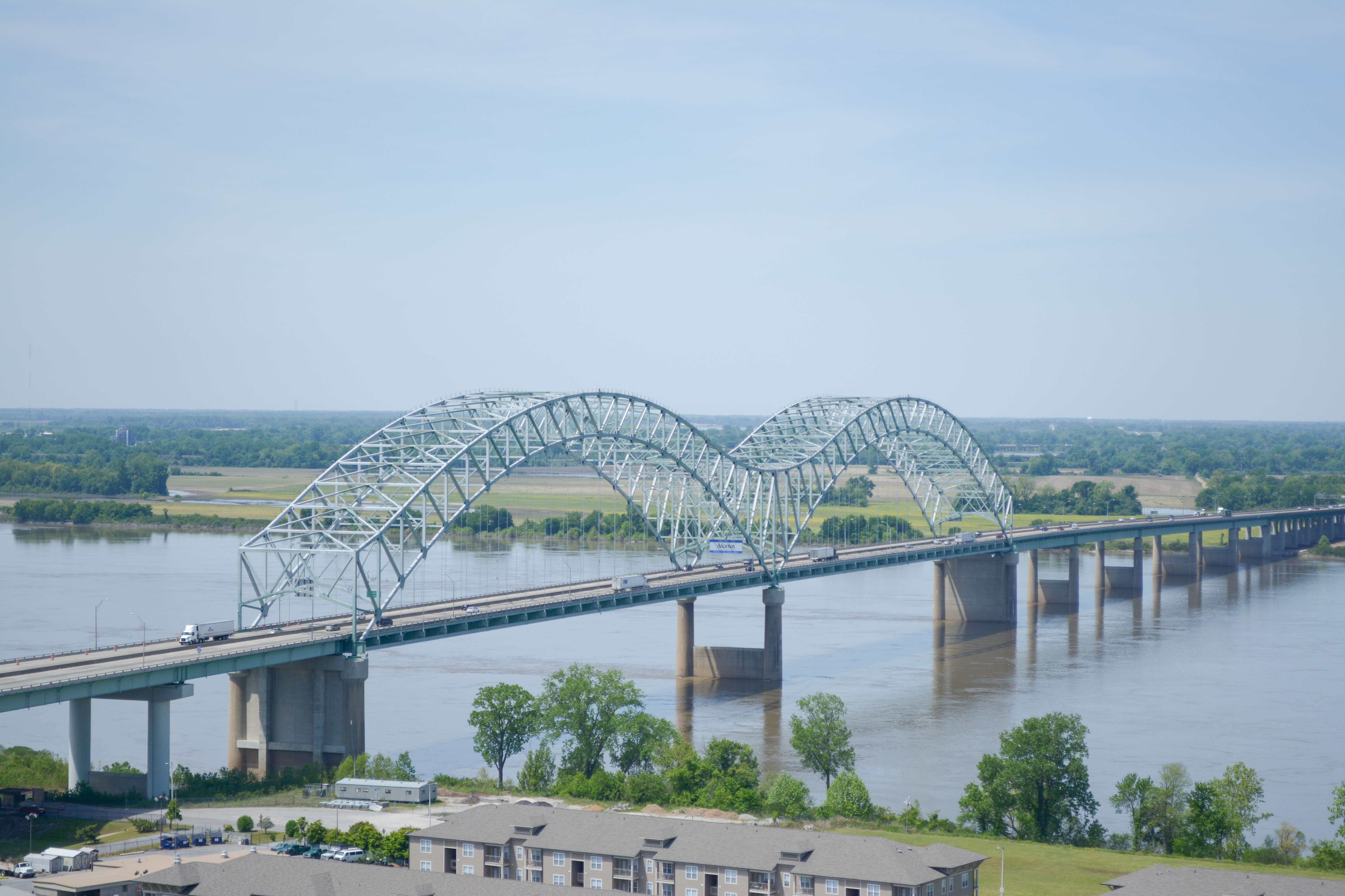 Hernando DeSoto Bridge from the Memphis Pyramid